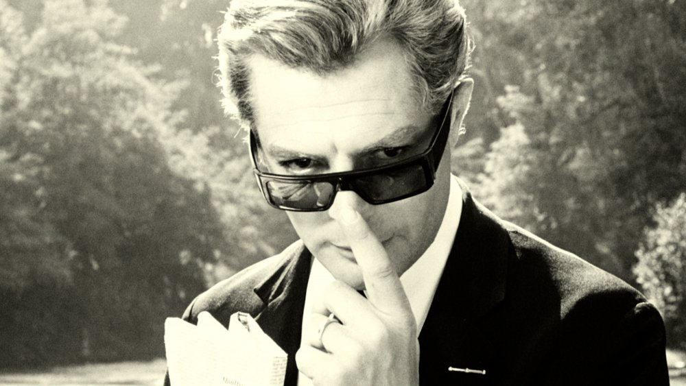 Marcello Mastroianni in 8½ (1963), directed by Federico Fellini.